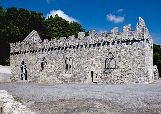 Castles of Munster: Halla Mór or Great Hall, Newcastle West, Limerick Within the same site as the Desmond Hall is this building recently restored, that acted as the ceremonial hall of the medieval complex; like the other hall it was substantially altered in the 15c, when it may have been converted from its former use as a chapel. It was rescued after being used as the town cinema during the 1960s following a disastrous fire.